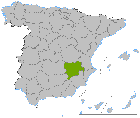 Location of the province of Albacete, in Spain. Basado en: ProvPont.jpg Source: Designed by Satesclop. Original picture, designed by Sobreira.